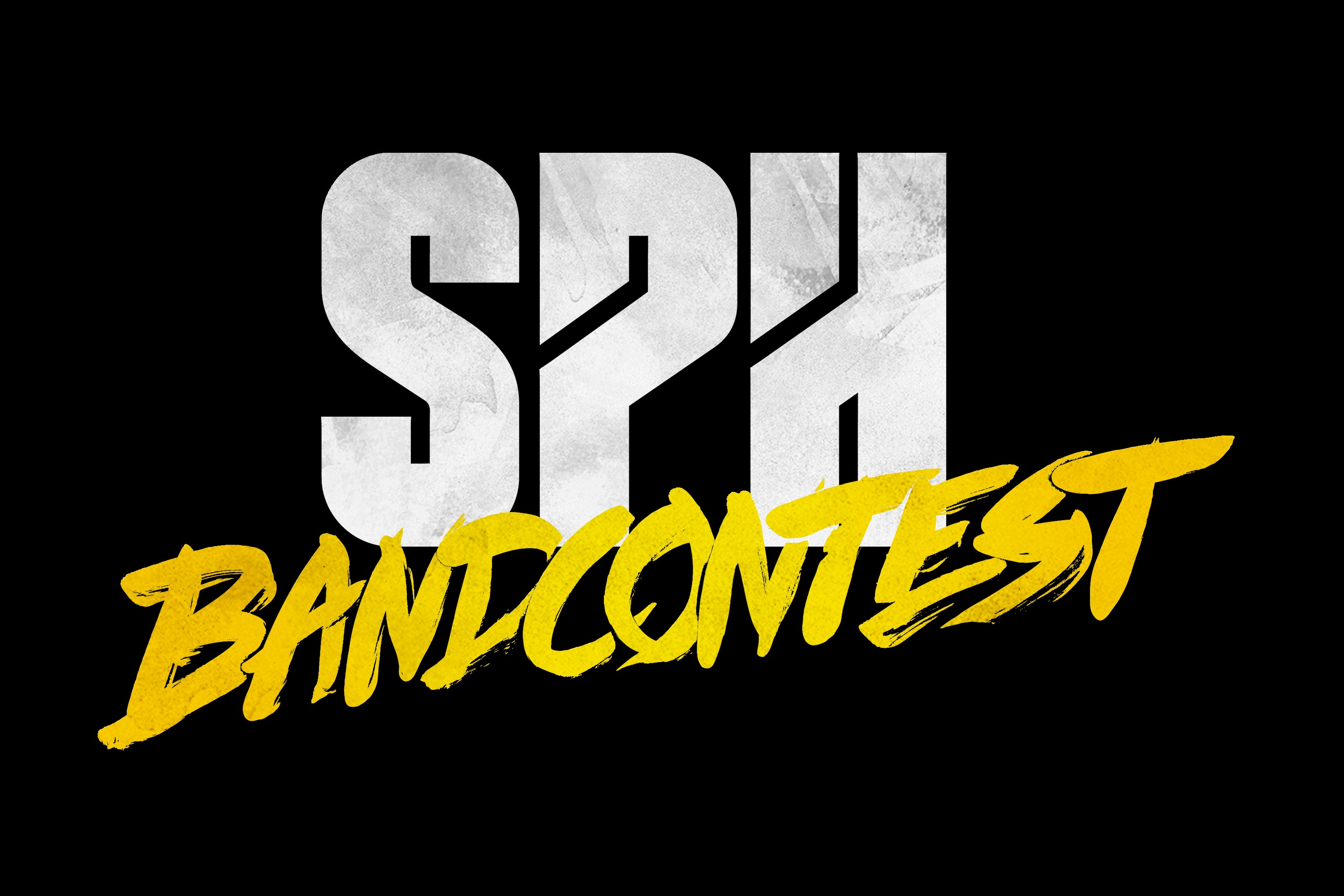 Logo ab Saison 2015